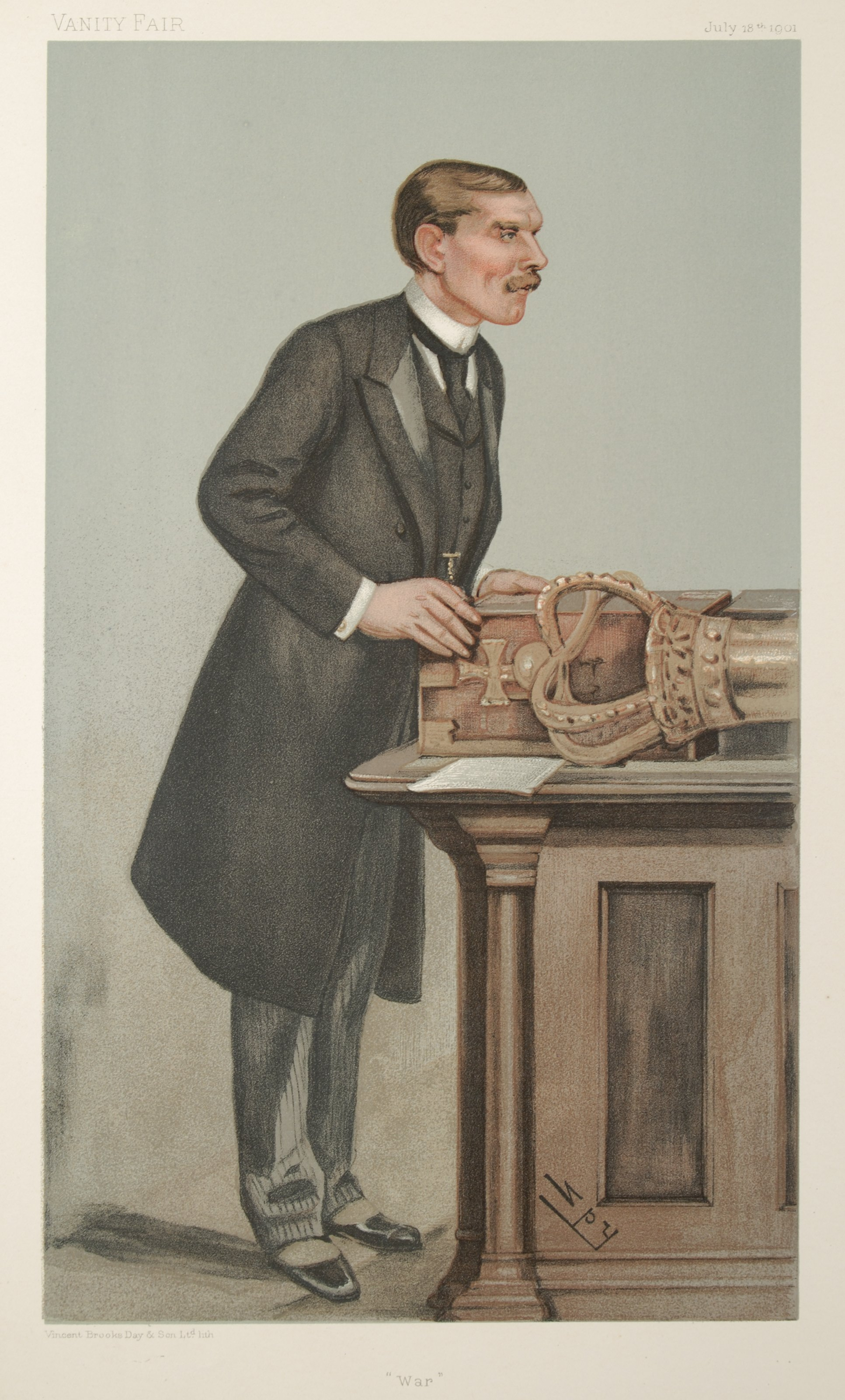 Statesmen No. 738: Caricature of St John Brodrick (1856-1942), British Secretary of State for War. Caption read "War".